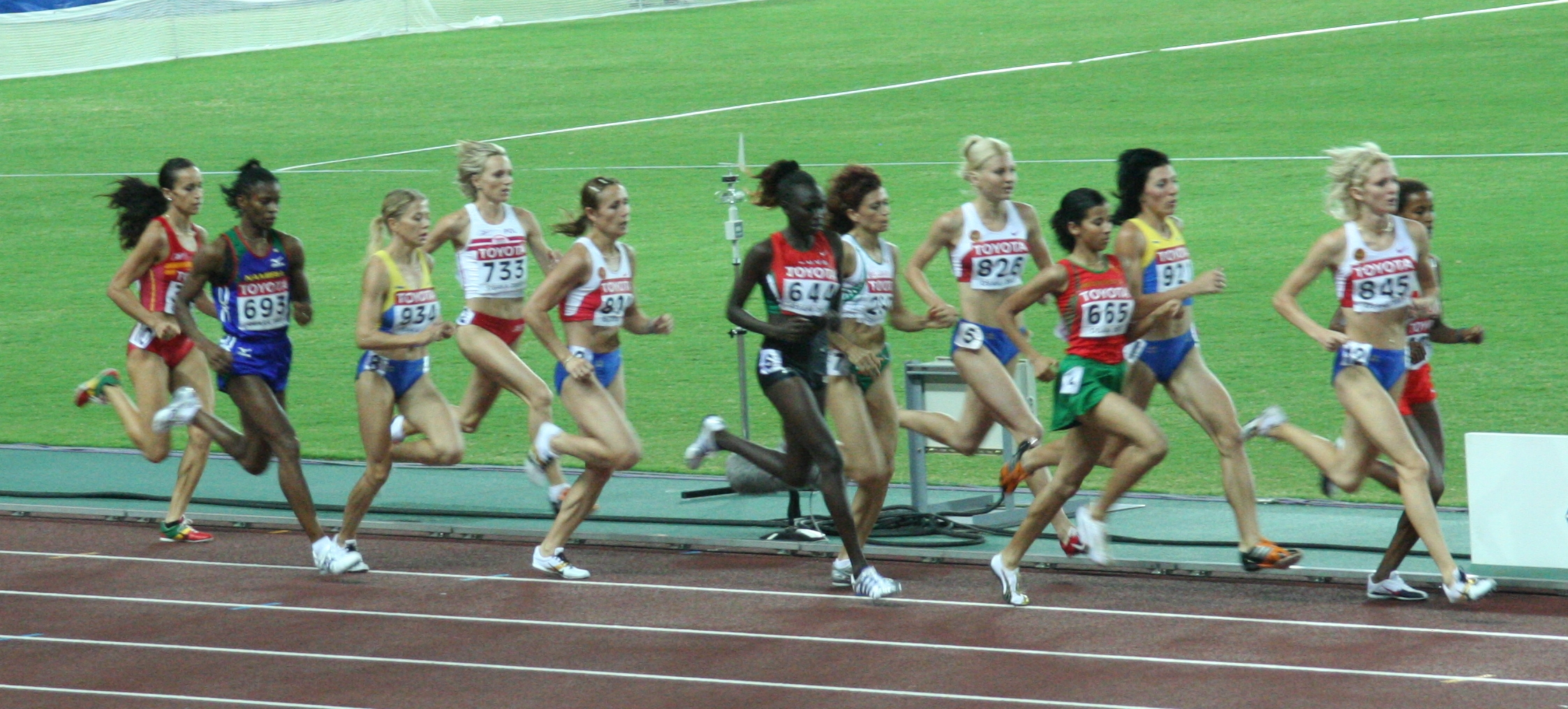 World Athletics Championships 2007 in Osaka - Scene from the women's 1500 metres final: Iris Fuentes-Pila, Agnes Samaria, Nataliya Tobias, Lidia Chojecka, Yuliya Fomenko, Viola Kibiwot, Daniela Yordanova, Nataliya Panteleeva, Mariem Alaoui Selsouli, Iryna Lishchynska, Elena Soboleva, Maryam Yusuf Jamal